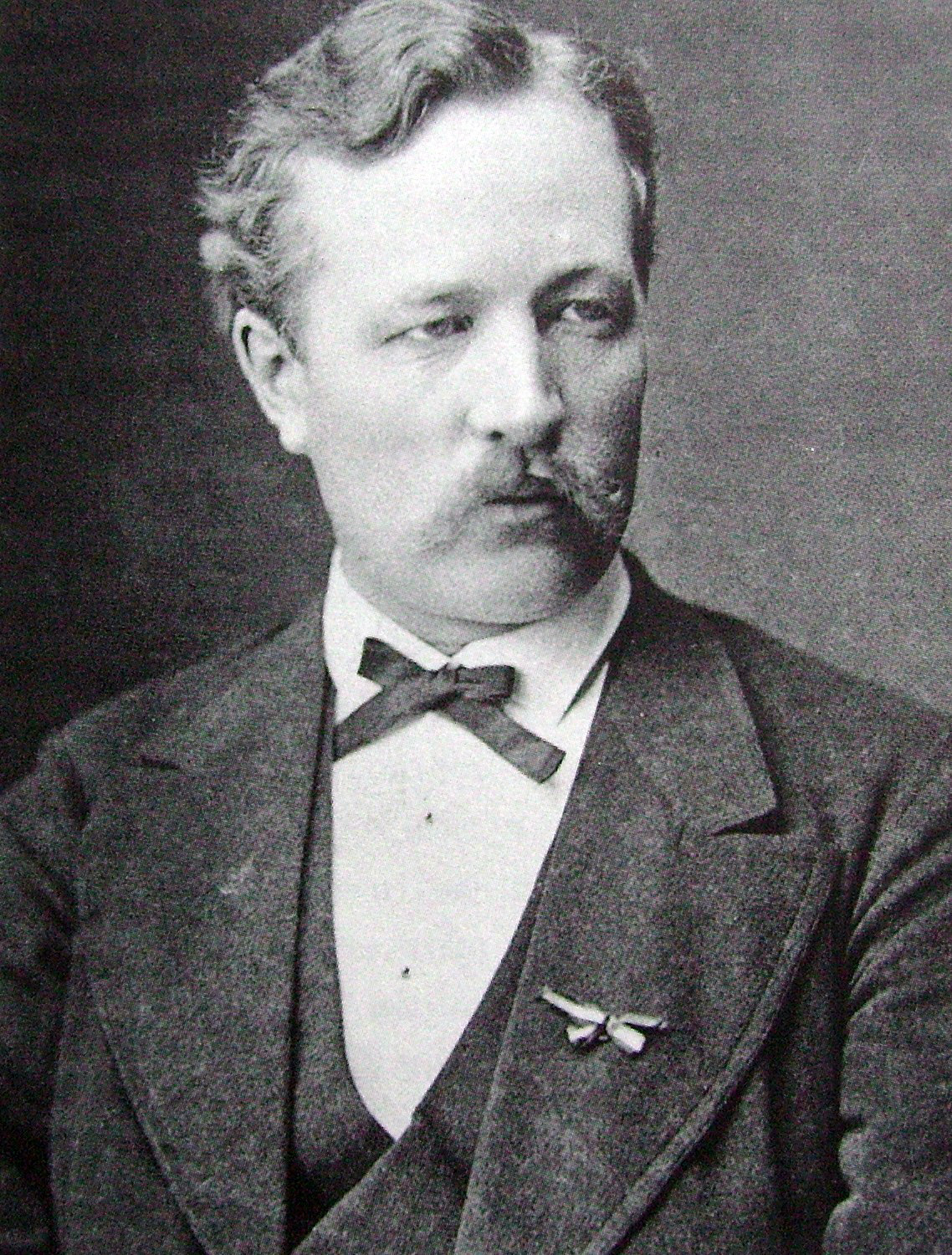 Picture of Johan Reinhold Aspelin, Finnish archaeologist